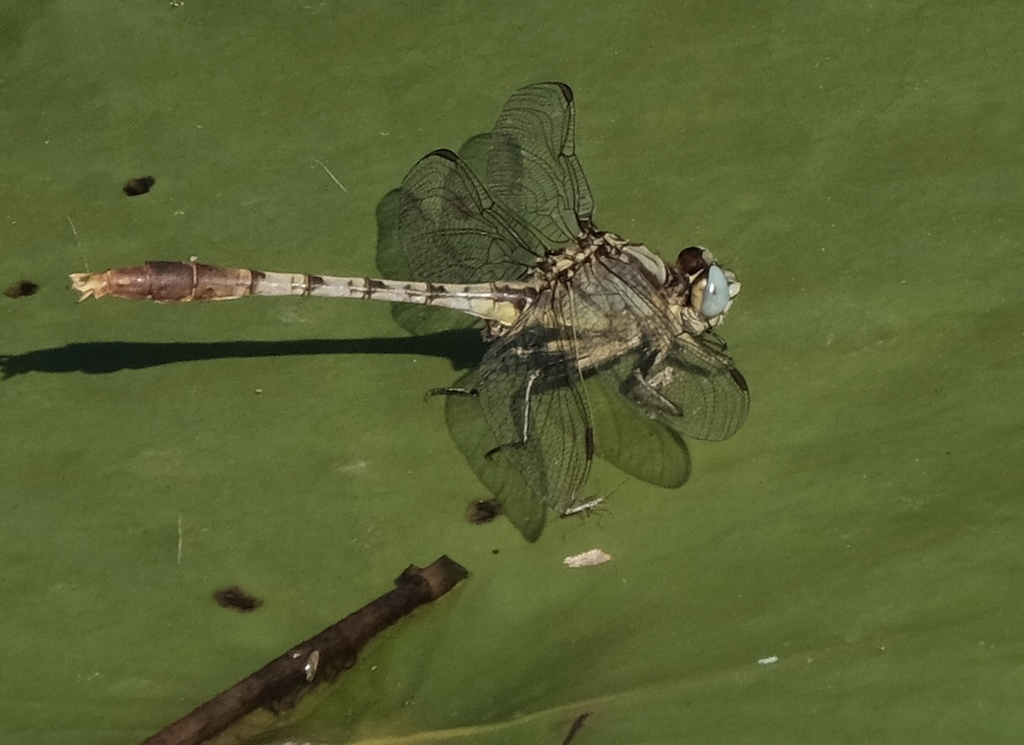 Stillwater Clubtail (Arigomphus lentulus), 75861, Tennessee Colony, TX, US